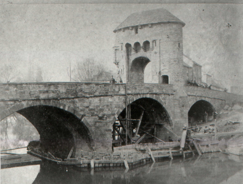 Monnow Bridge in 1842 during repair work, from the South West on the river. Monmouth Museum Identity Number: M1991